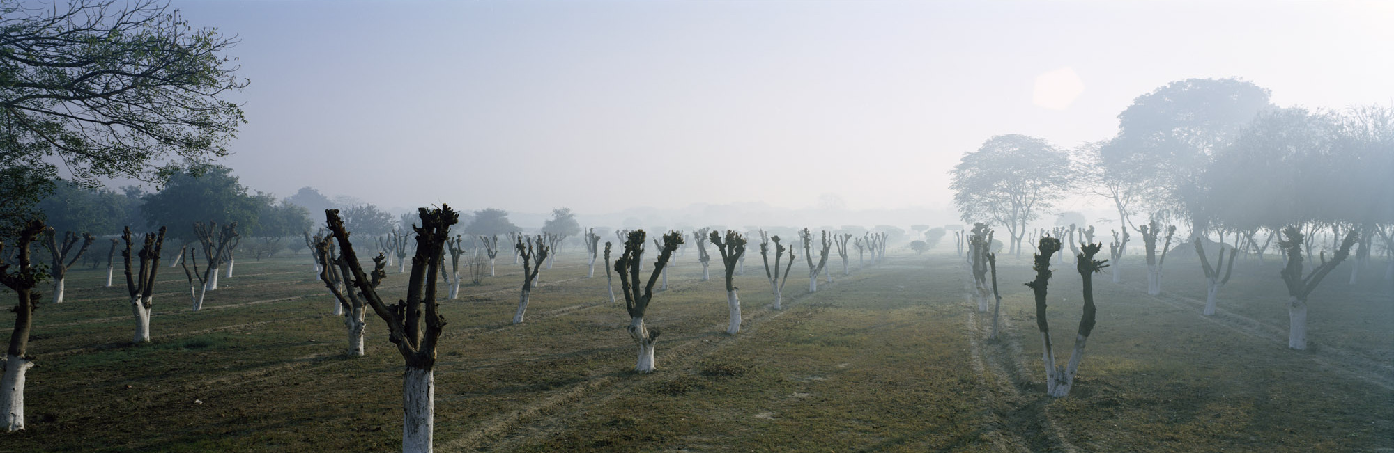 Mehtab Bagh (Moonlight Garden)